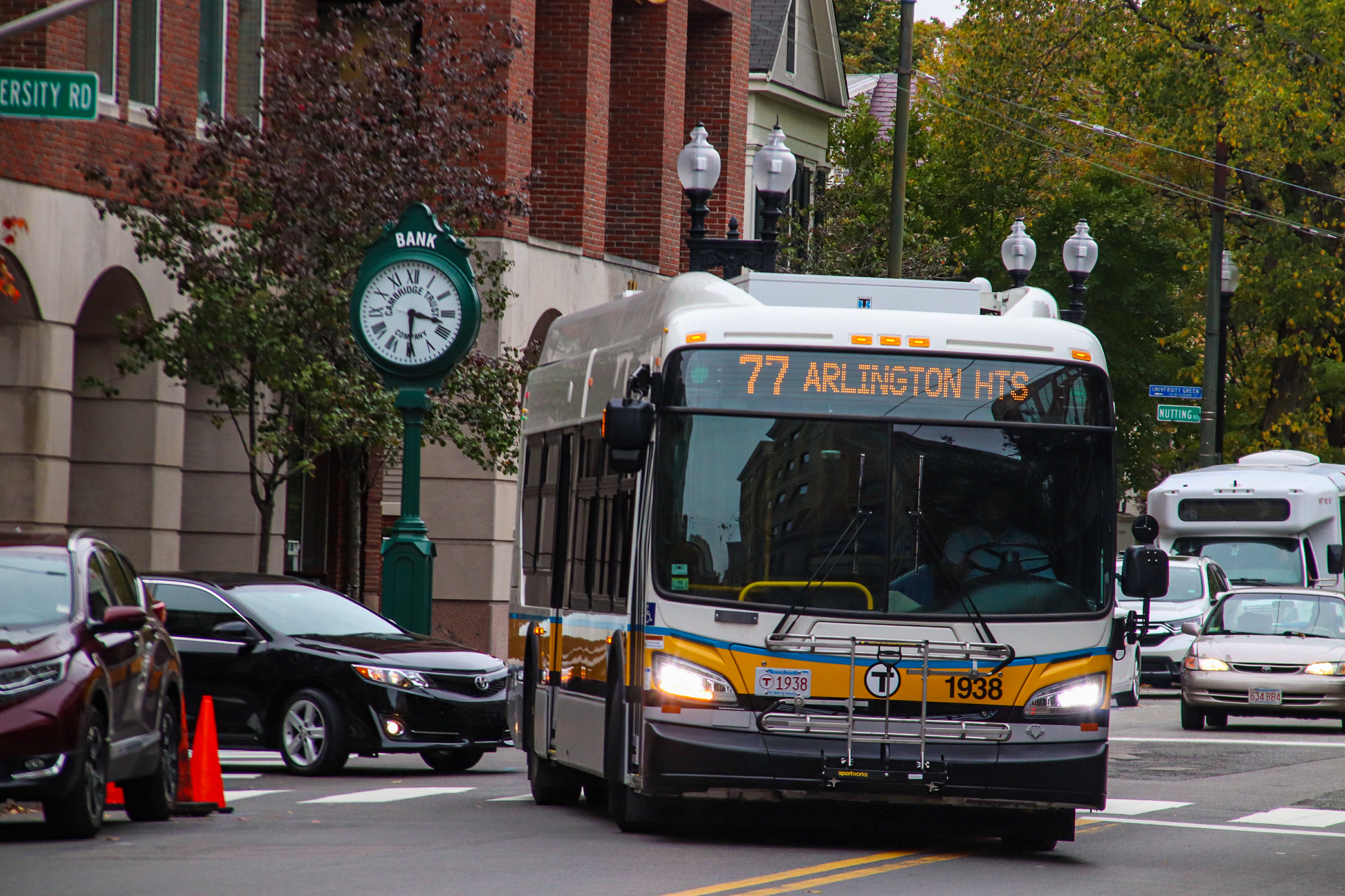 MBTA #1938 on route 77 turning onto Mount Auburn Street (to reach the northbound Harvard Bus Tunnel) at University Road in October 2019